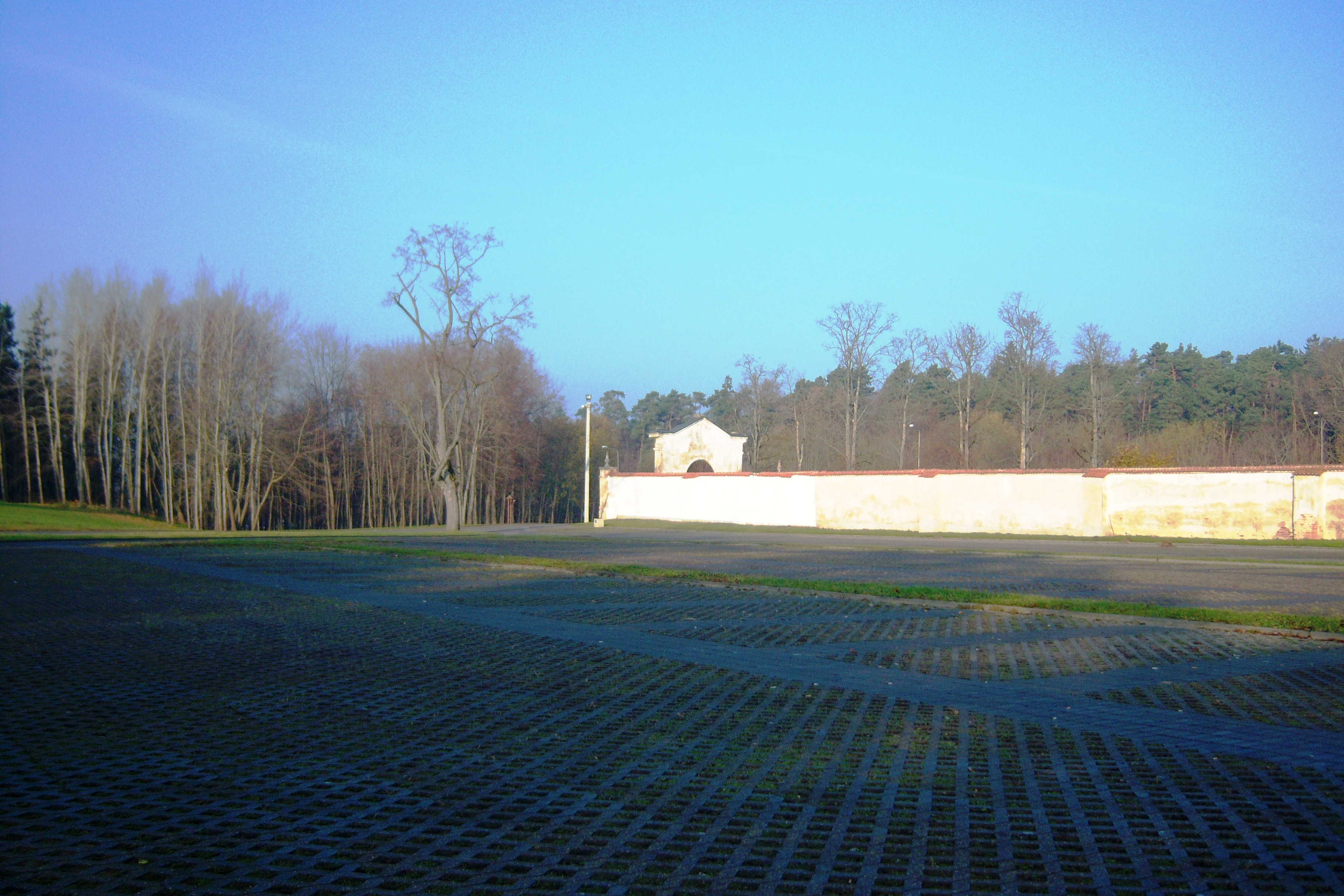 Pažaislis forest, park in Kaunas, view from the monastery, Lithuania